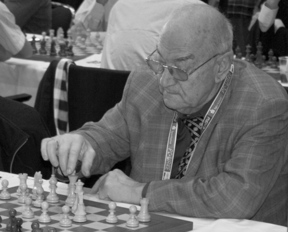 Chess grandmaster Victor Korchnoi, Switzerland.